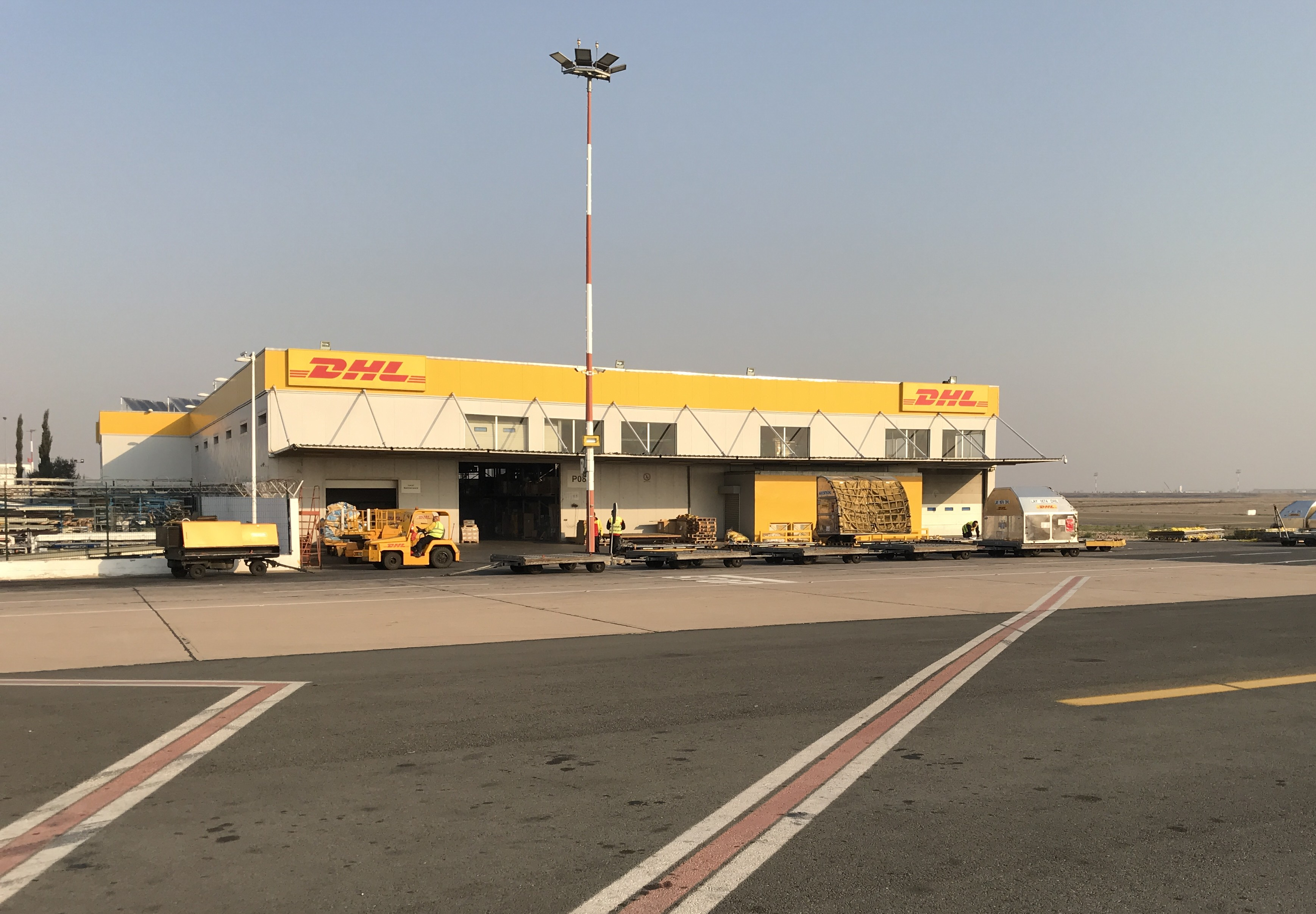 DHL Cargo Terminal in Casablanca Mohammed V Airport